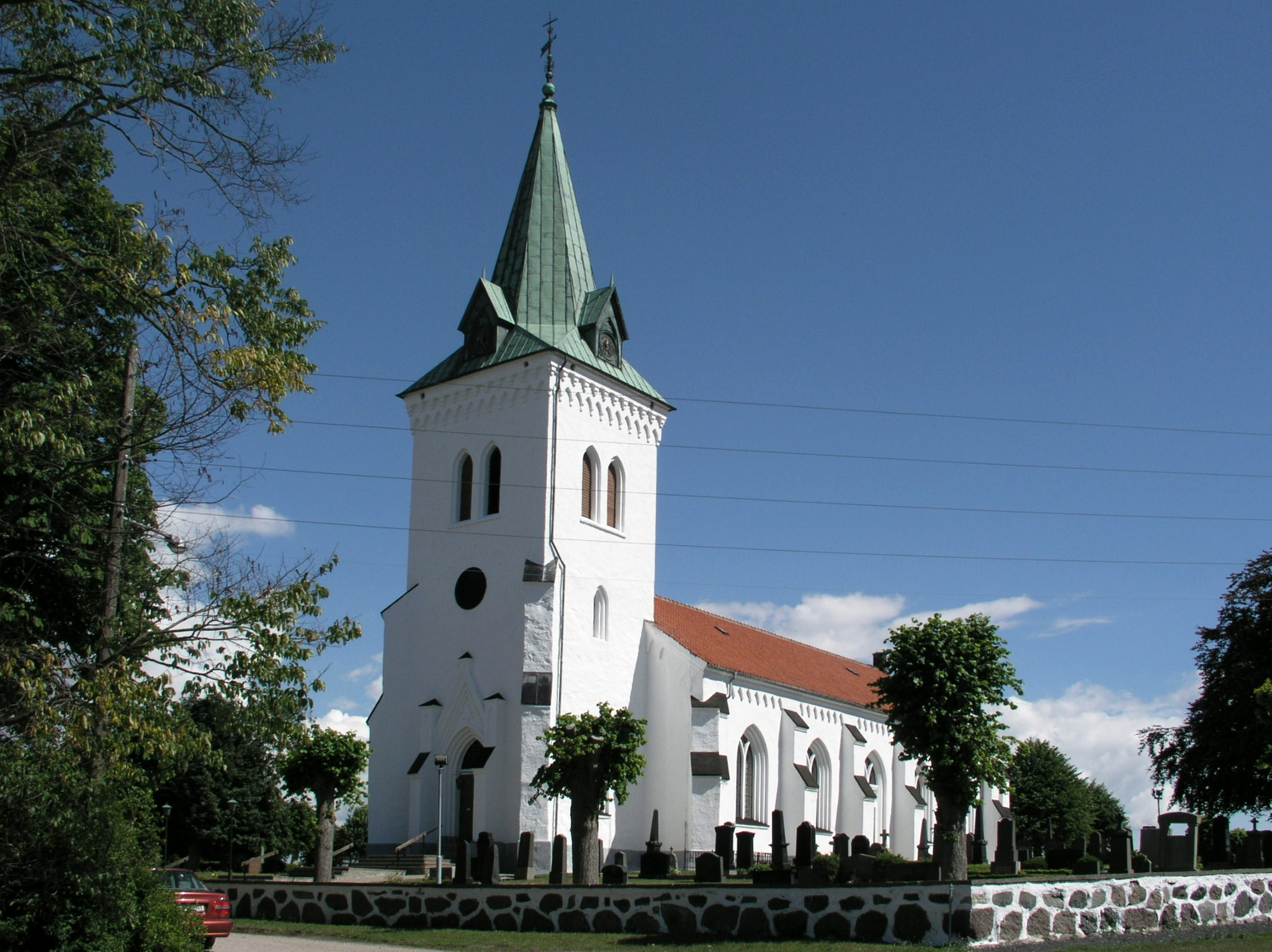 Ingelstorps kyrka/church. Main view.